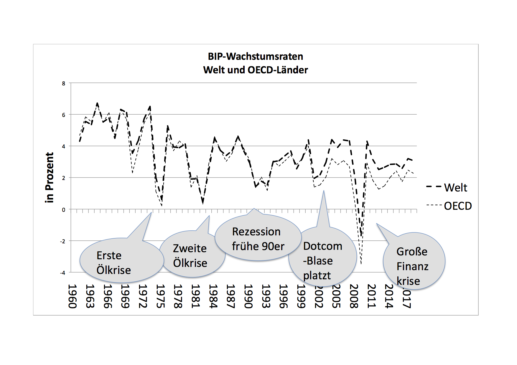 Growth rate of Gross domestic Product of World and OECD-Total. Data source is The World Bank Group and the OECD. From OECD Statistics Page: "Current Query: GDP, US $, constant prices, constant PPPs, reference year 2000, millions"